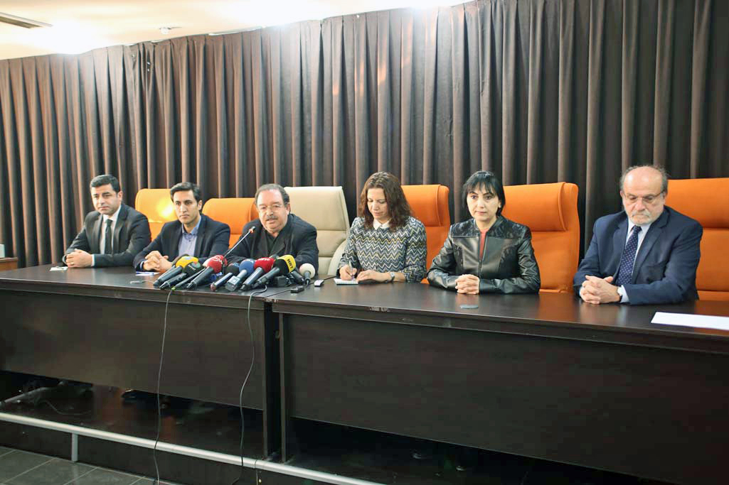 DTK, HDK, DBP, HDP administrators